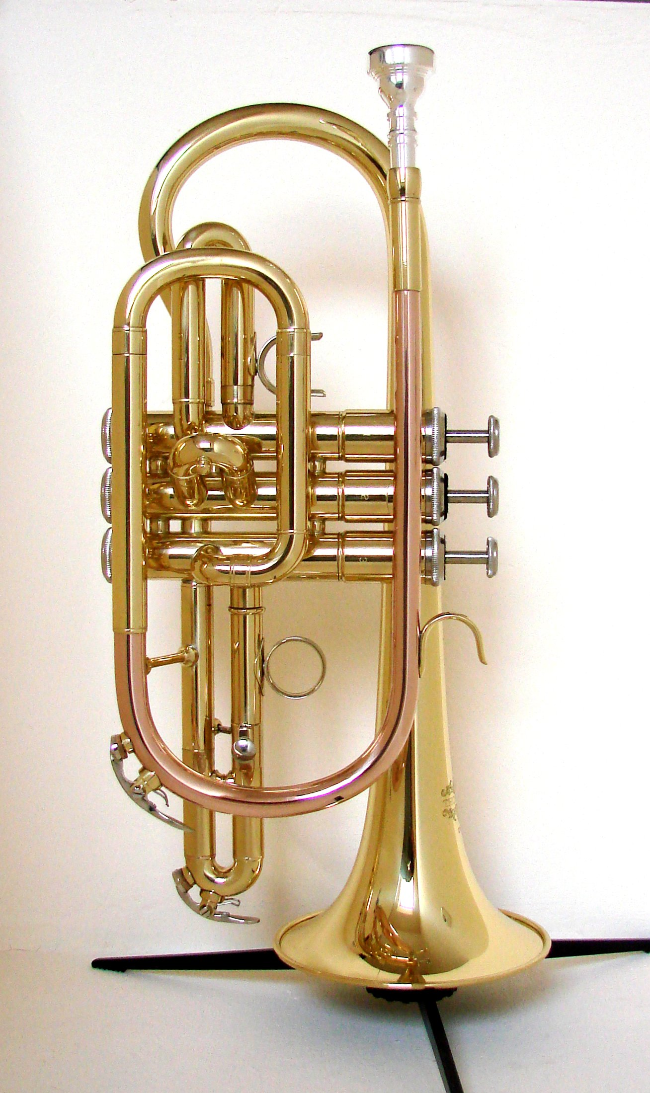 Cornet in in B♭